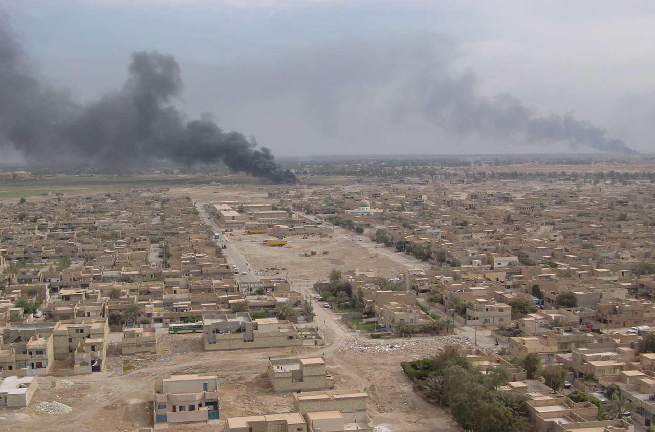 Flying over Baghdad Taken in Iraq in 2003 by Looper5920